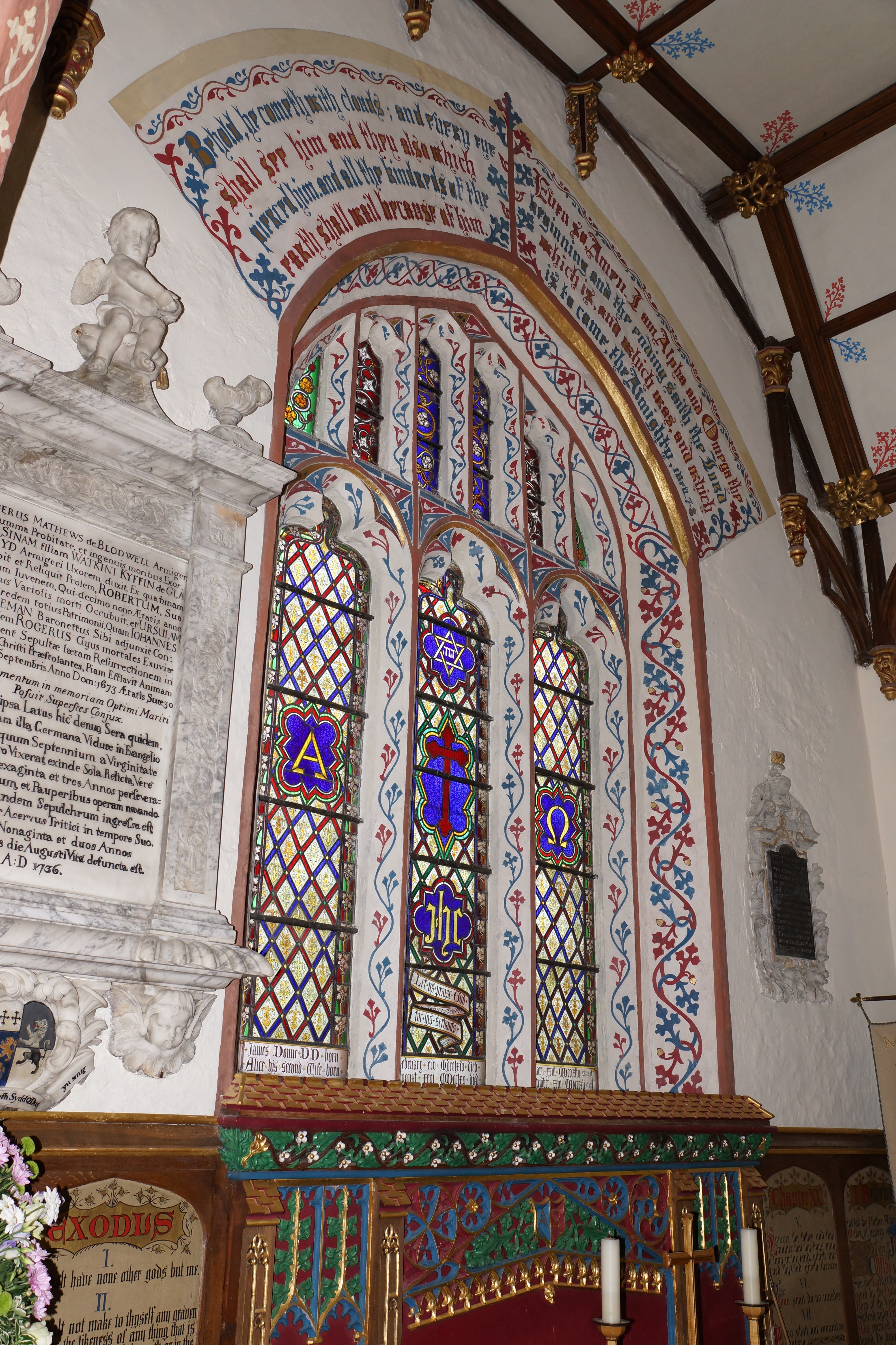 Church of St Michael the Archangel, Llanyblodwel, Shropshire, England. Structure and decoration mostly the work of its own vicar, Rev. John Parker, between 1847 and 1856.